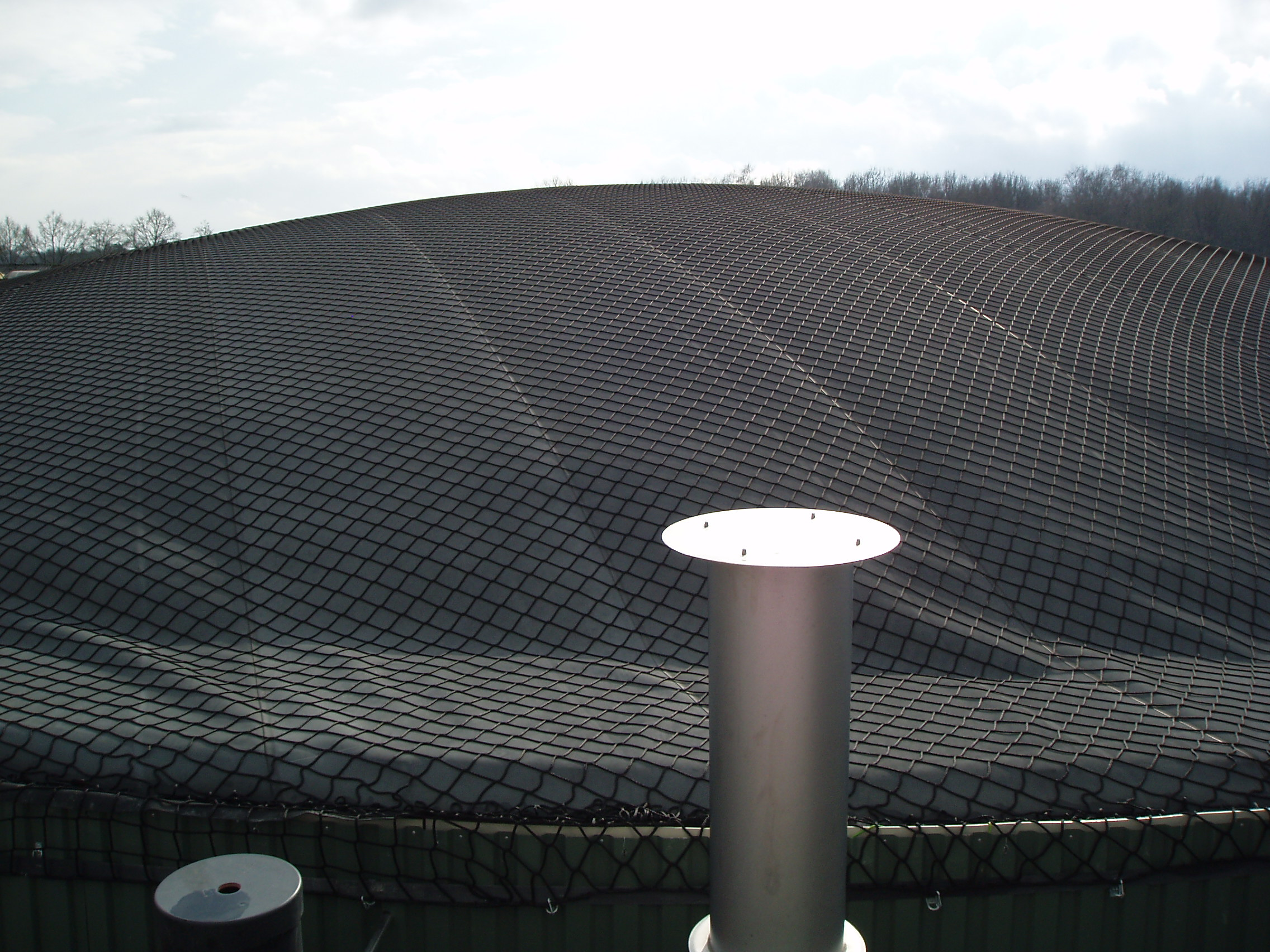 EPDM gasholder